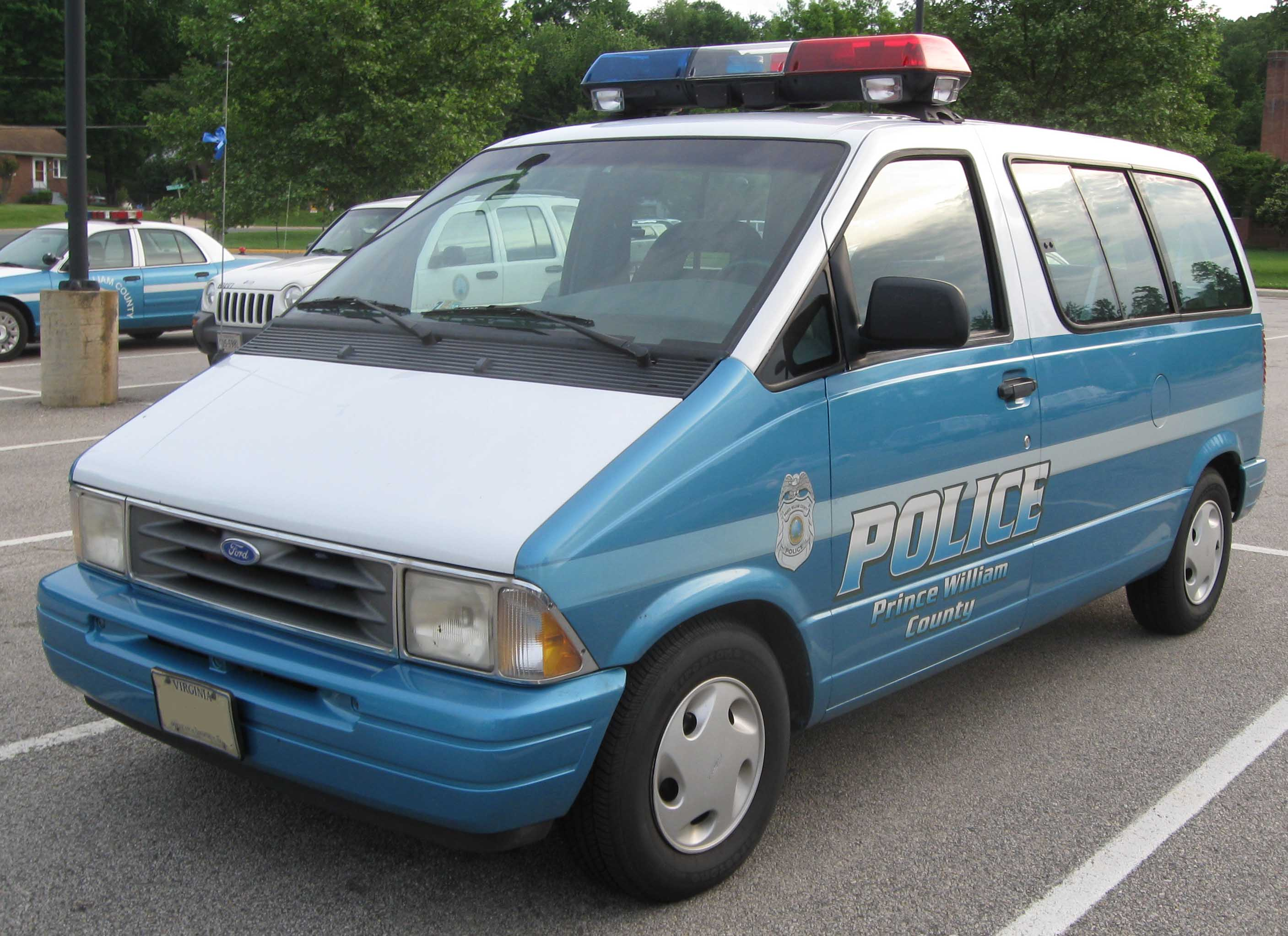 1993-1997 Ford Aerostar photographed in Woodbridge, Virginia, USA.